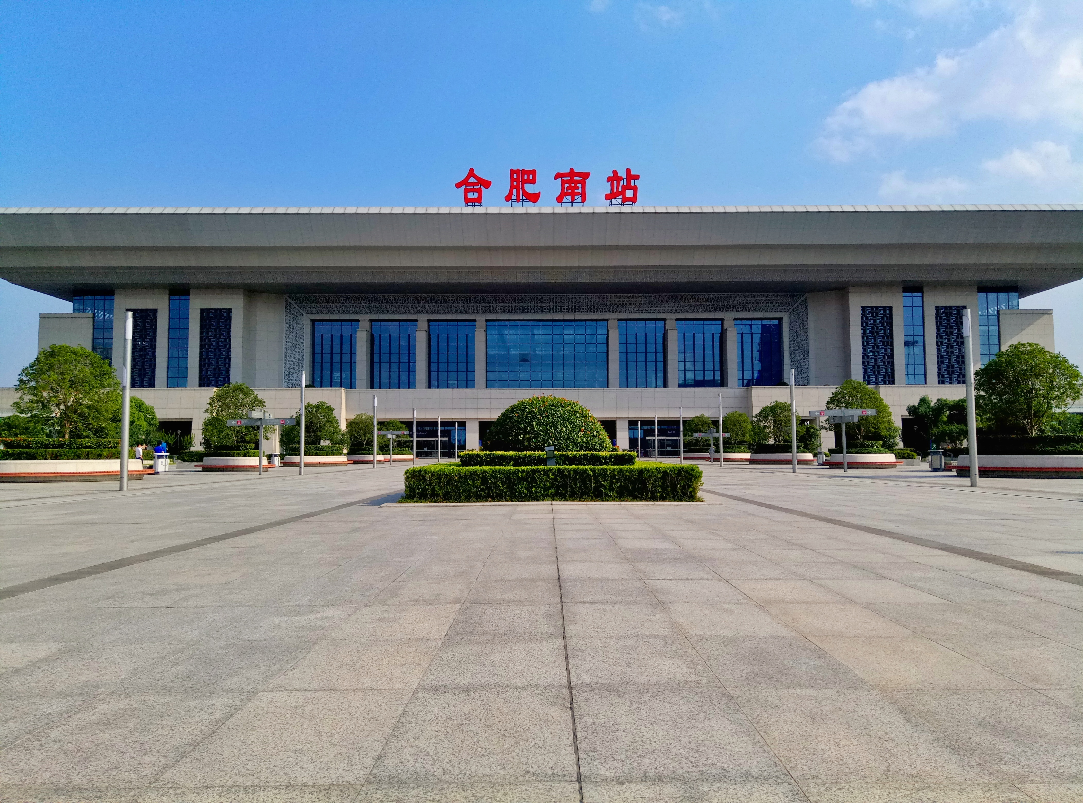 Hefeinan Railway Station North square